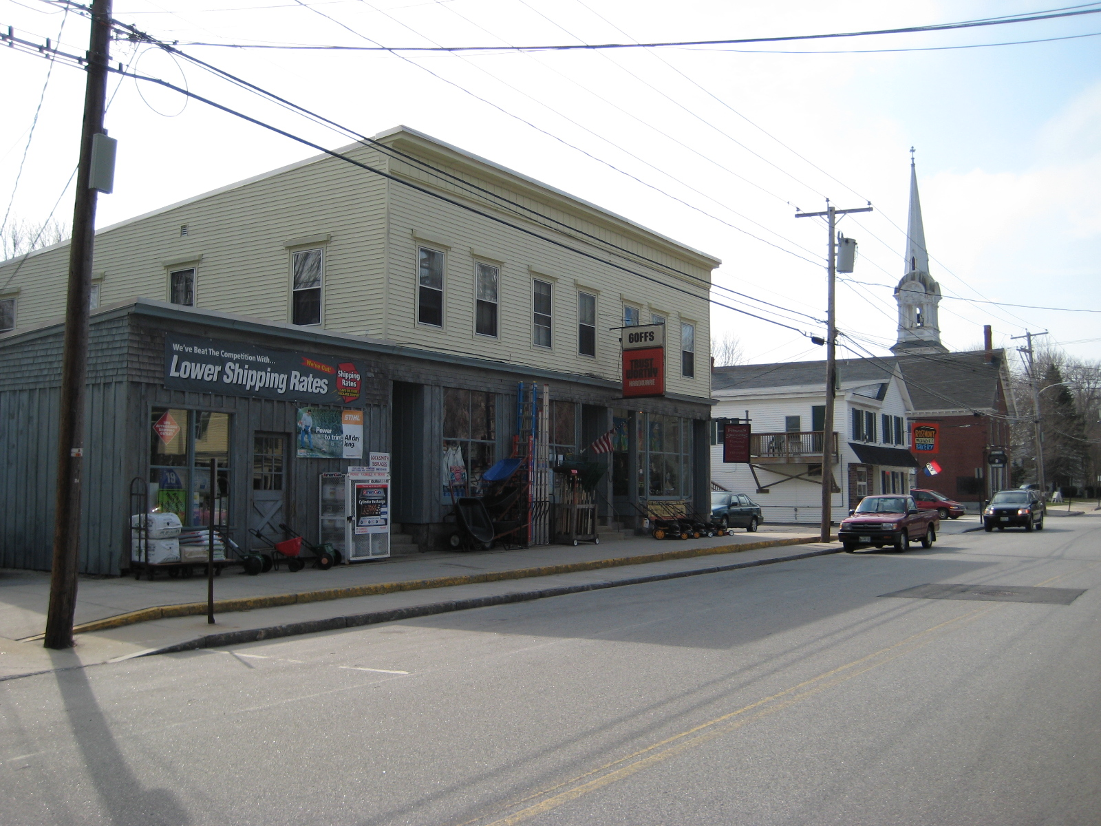 Goffs Hardware Store, Yarmouth, Maine